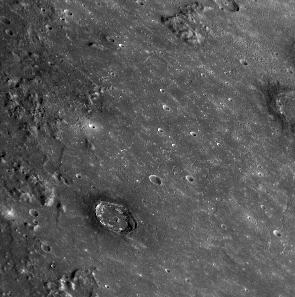 Image Mission Elapsed Time (MET): 108826682 Instrument: Narrow Angle Camera (NAC) of the Mercury Dual Imaging System (MDIS) Resolution: 240 meters/pixel (0.15 miles/pixel) Scale: Nawahi crater has a diameter of 34 kilometers (21 miles) Spacecraft Altitude: 9,400 kilometers (5,800 miles) Of Interest: The crater surrounded by dark material located just below and to the left of the center of this NAC image is the newly named crater Nāwahī. The crater is named in honor of Joseph Kaho'oluhi Nawahiokalaniopuu, the 19th century native Hawaiian painter. Nāwahī crater is located within the large Caloris impact basin, and the hills and rugged terrain to the left of Nāwahī in this image are part of the basin rim. The unusual dark material creating a halo around Nāwahī makes this crater of special interest, as the dark material likely represents rocks with a different chemical and mineralogical composition than those of the neighboring surface. A portion of the newly named crater Munch is also visible on the upper right edge of this image. Munch is also rimmed by dark material. Other craters that expose dark materials include Atget, Neruda, and the newly named Poe.